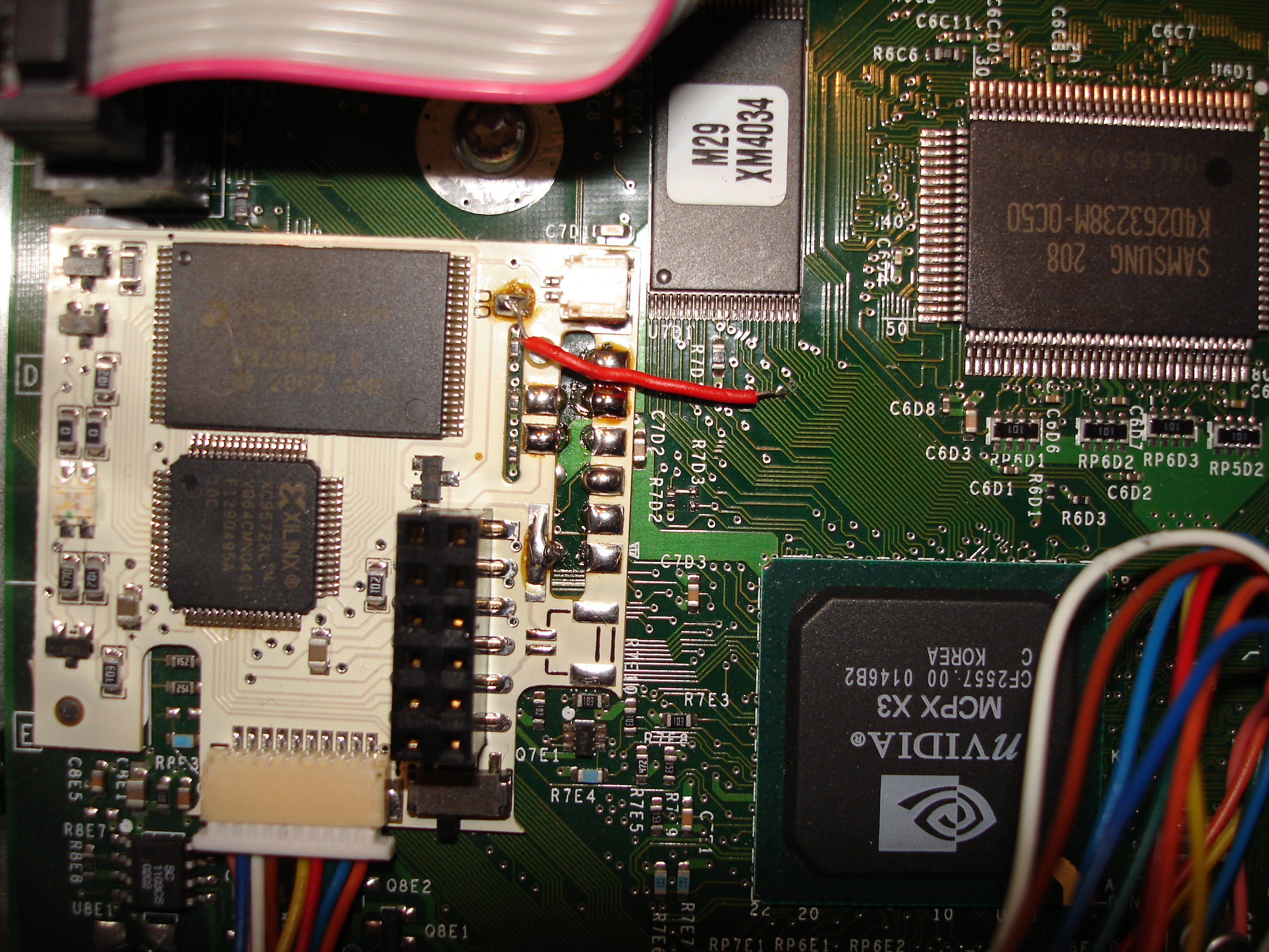 A Xenium ICE mod chip soldered into an Xbox console. Picture made by me.